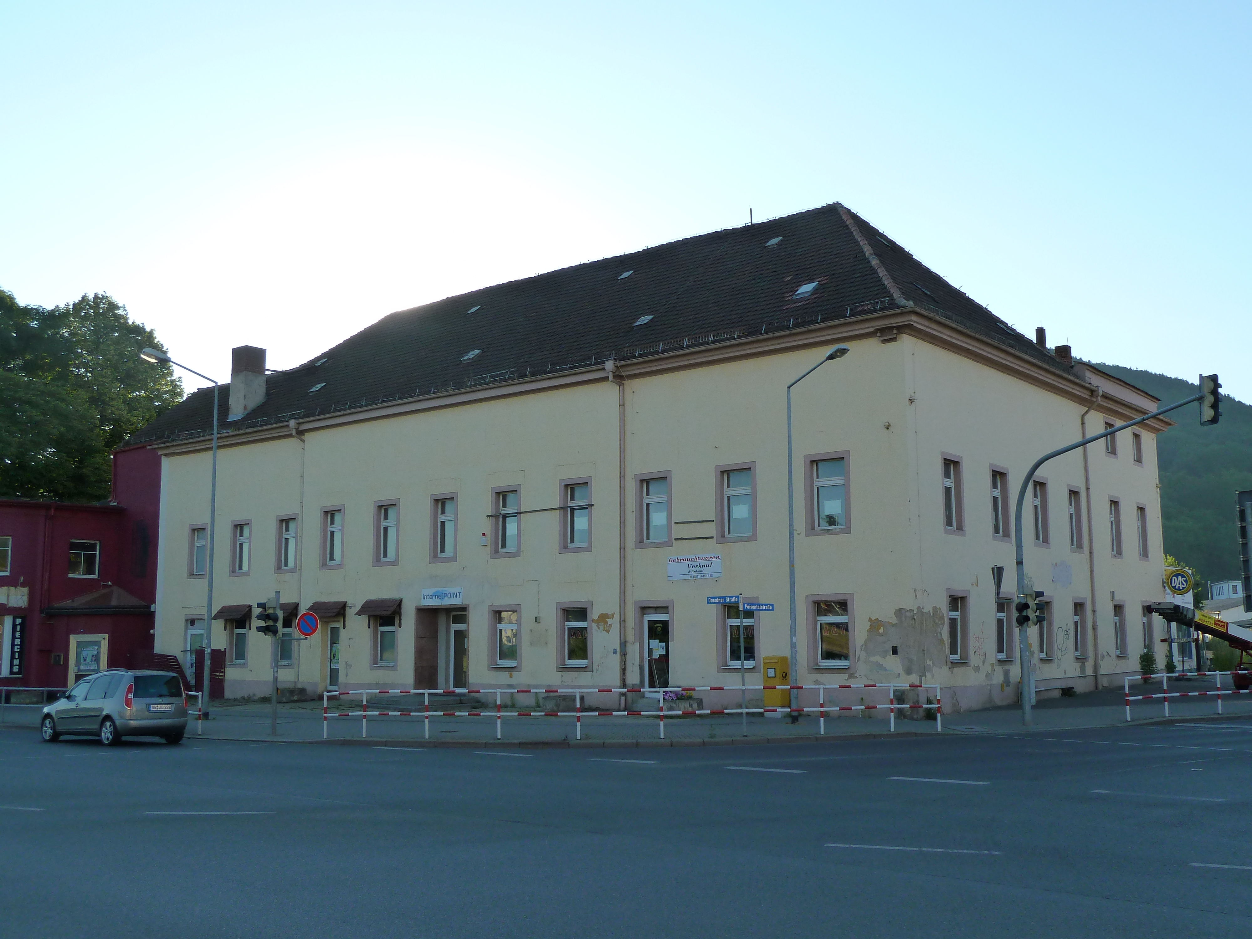 Saechsischer Wolf, popular restaurant in Freital-Deuben before 1945. Since 1949 miners´ club with canteen and food shop for Wismut uranium miners, mainly for workers of the nearby uranium processing plant "Factory 93"; thereafter cultural club of steel workers until 1990. Restaurant of little importance and shelter for right-wing activities until the house was pulled down in 2011.